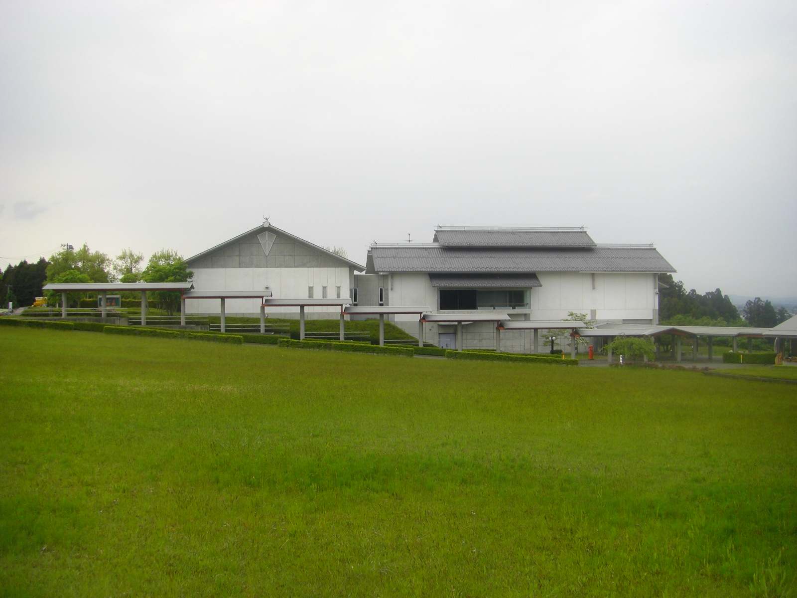 Oshu city Cattle Museum's building. location: Iwate'pref Oshu city.